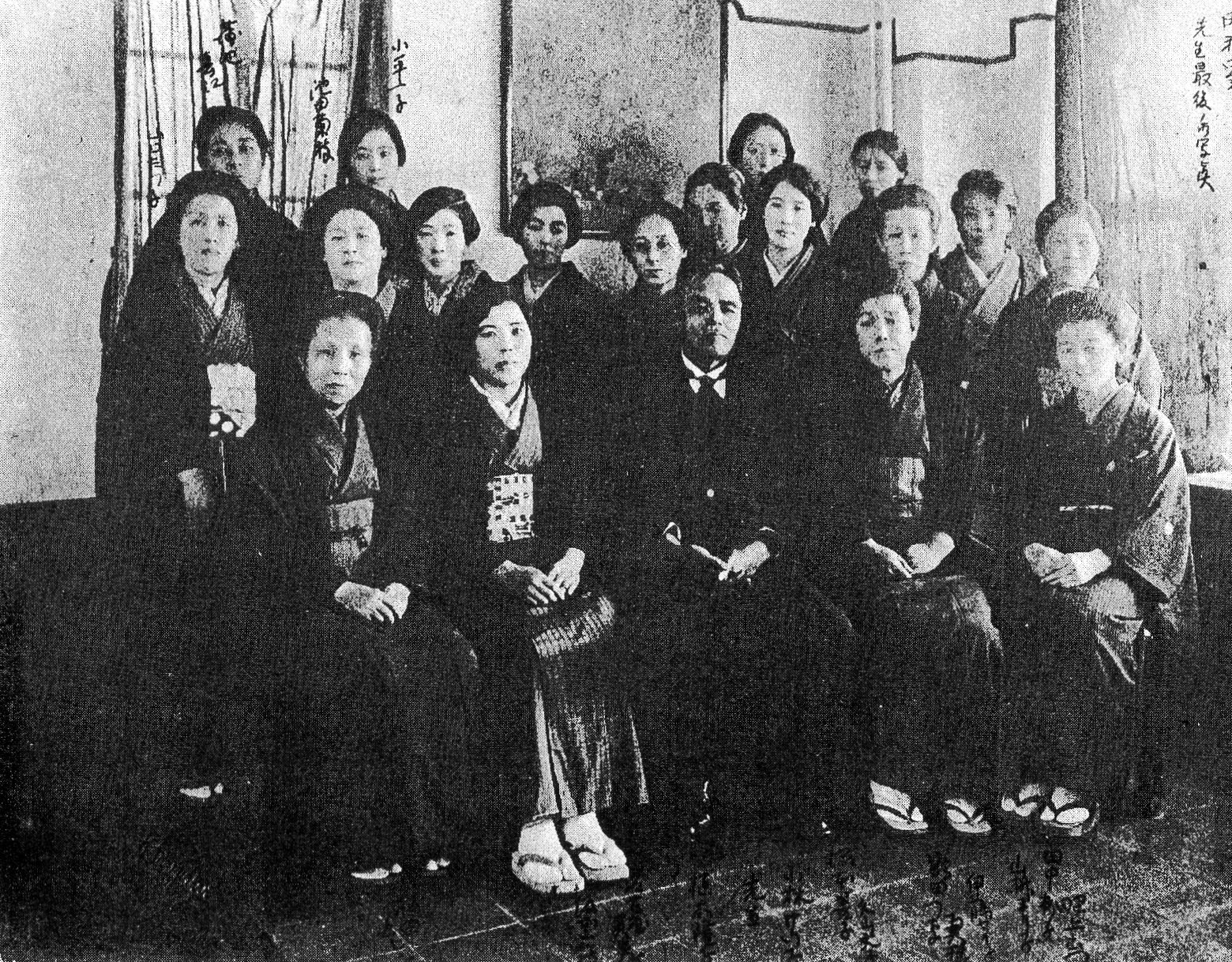 This is a picture of women's society members established by Kanzo Uchimura for the memorial of his daughter Ruth who deid in 1911. Shizuko Uchimura, Kanzo's wife, was the leader of it. This picture was taken in the Christmas day of 1929, 4 months before his death. The Additonal hand writing of this picture says that this is the final photo of Kanzo Uchimura.